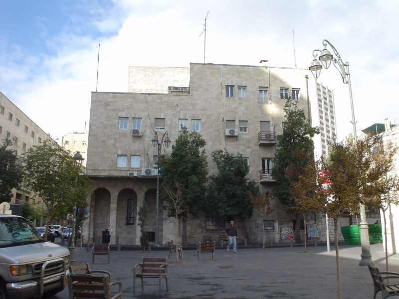 Eden hotel, Jerusalem